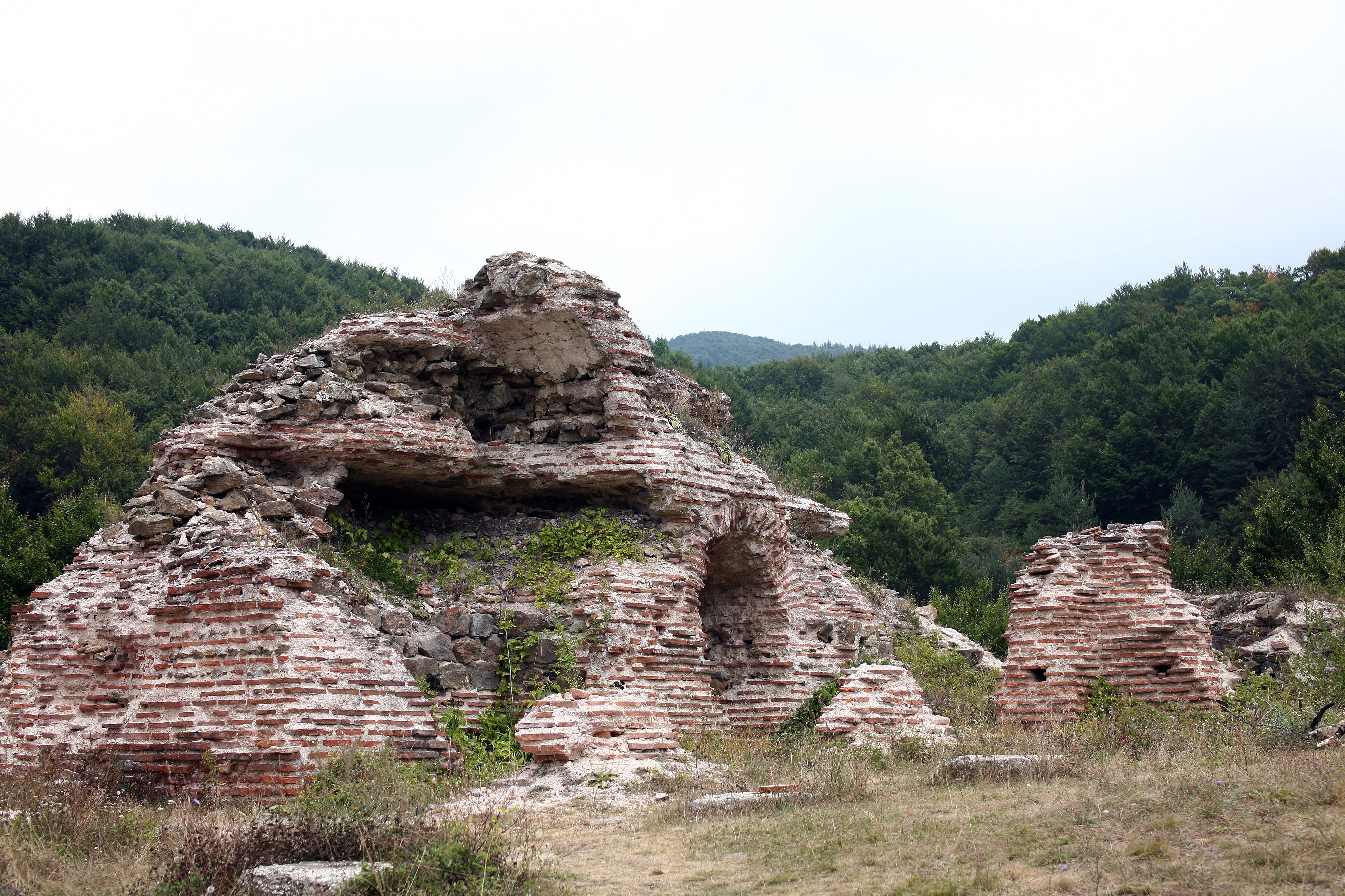 Trayanovi vrata fortress, Bulgaria